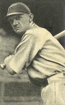 Baseball card of Max Carey from the 1921 Oxford Confectionery set